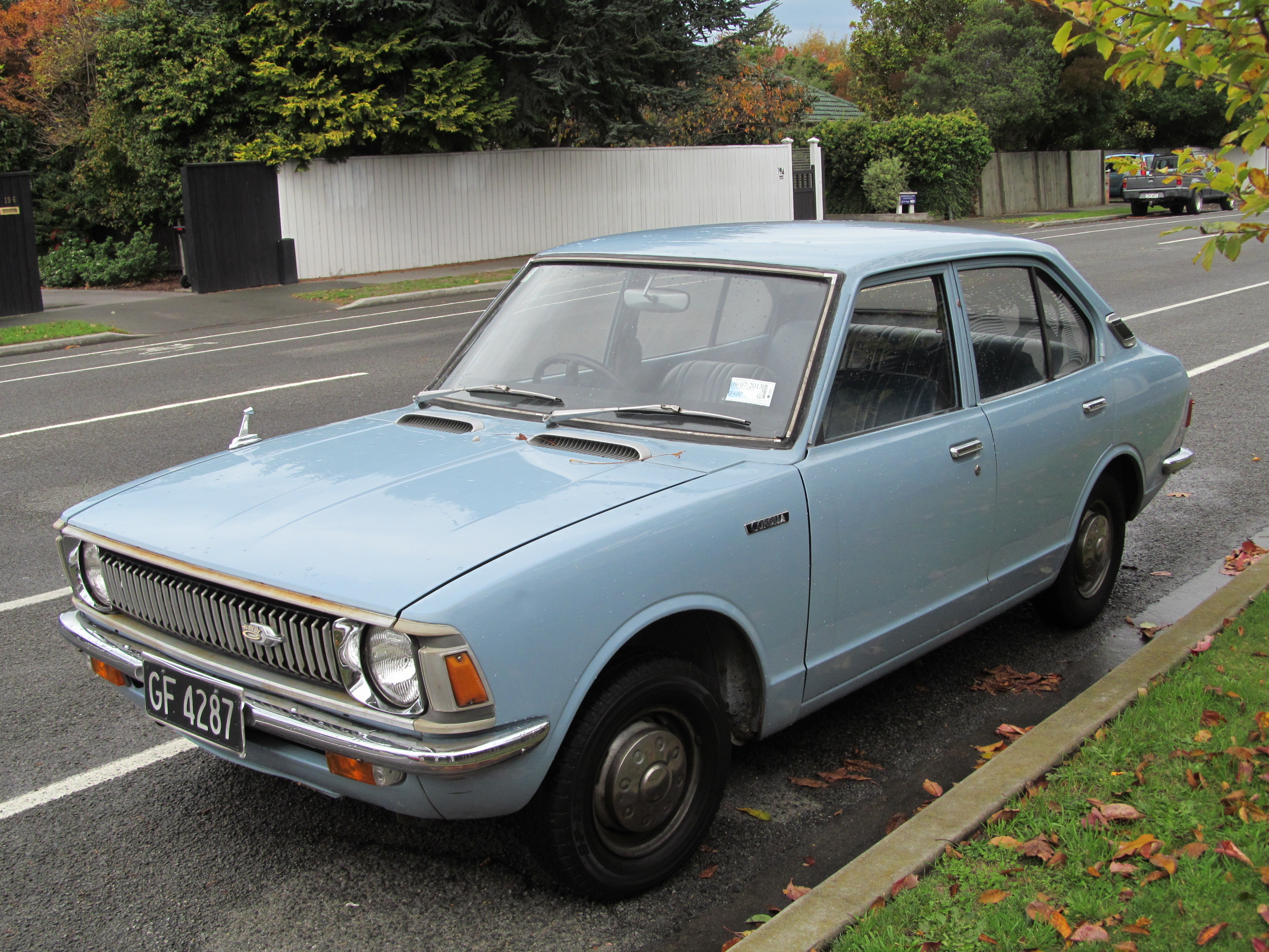 GF4287 There aren't many of these KE20s left nowadays, and certainly not in this condition! My granddad owned two of them in the early 70s, and they were apparently both good cars. This one is only a 1200, which may explain why it has remained untouched in its 41 years...